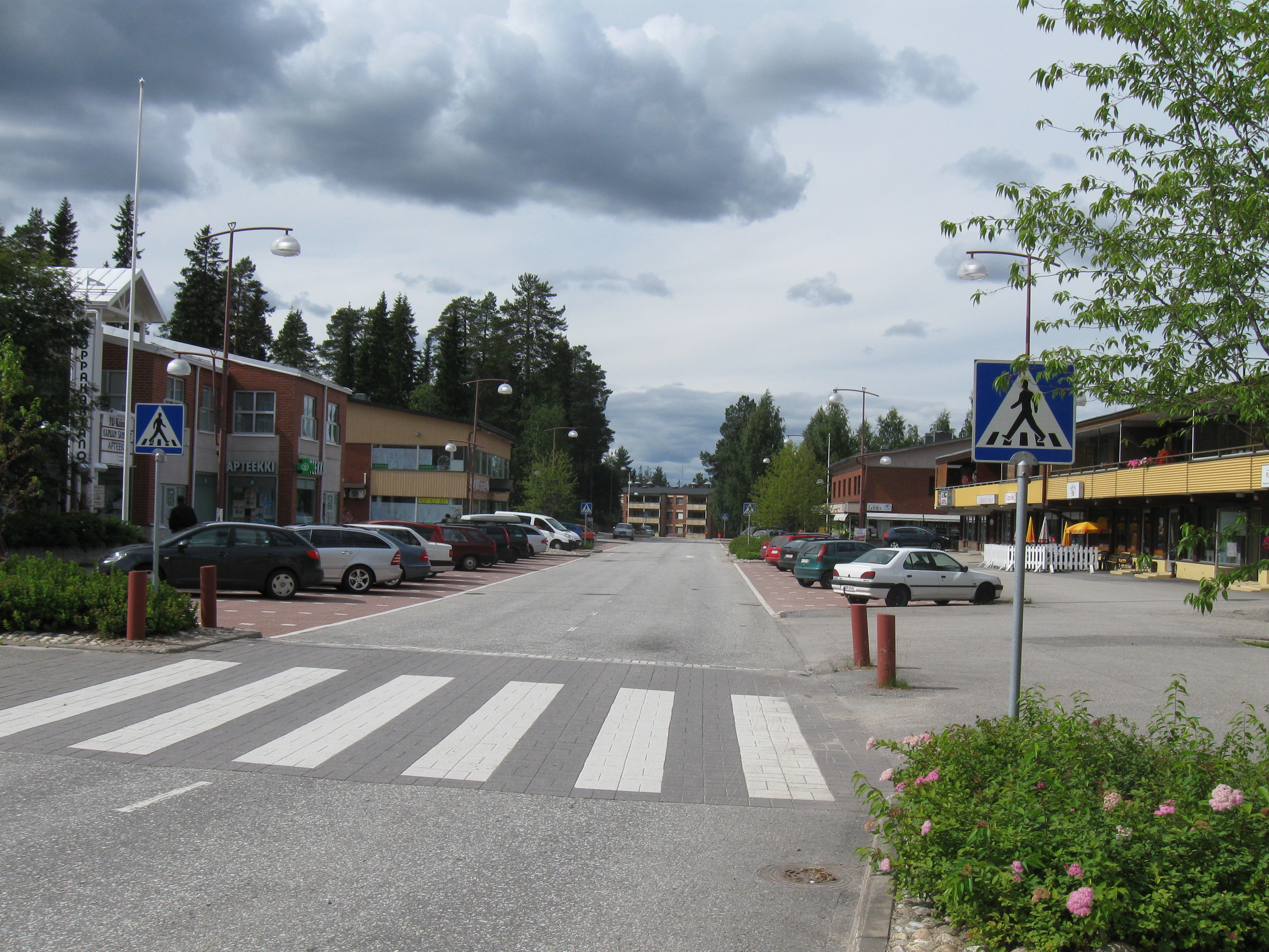 Kauppakatu street in Ämmänsaari, Suomussalmi, Finland, towards North-West